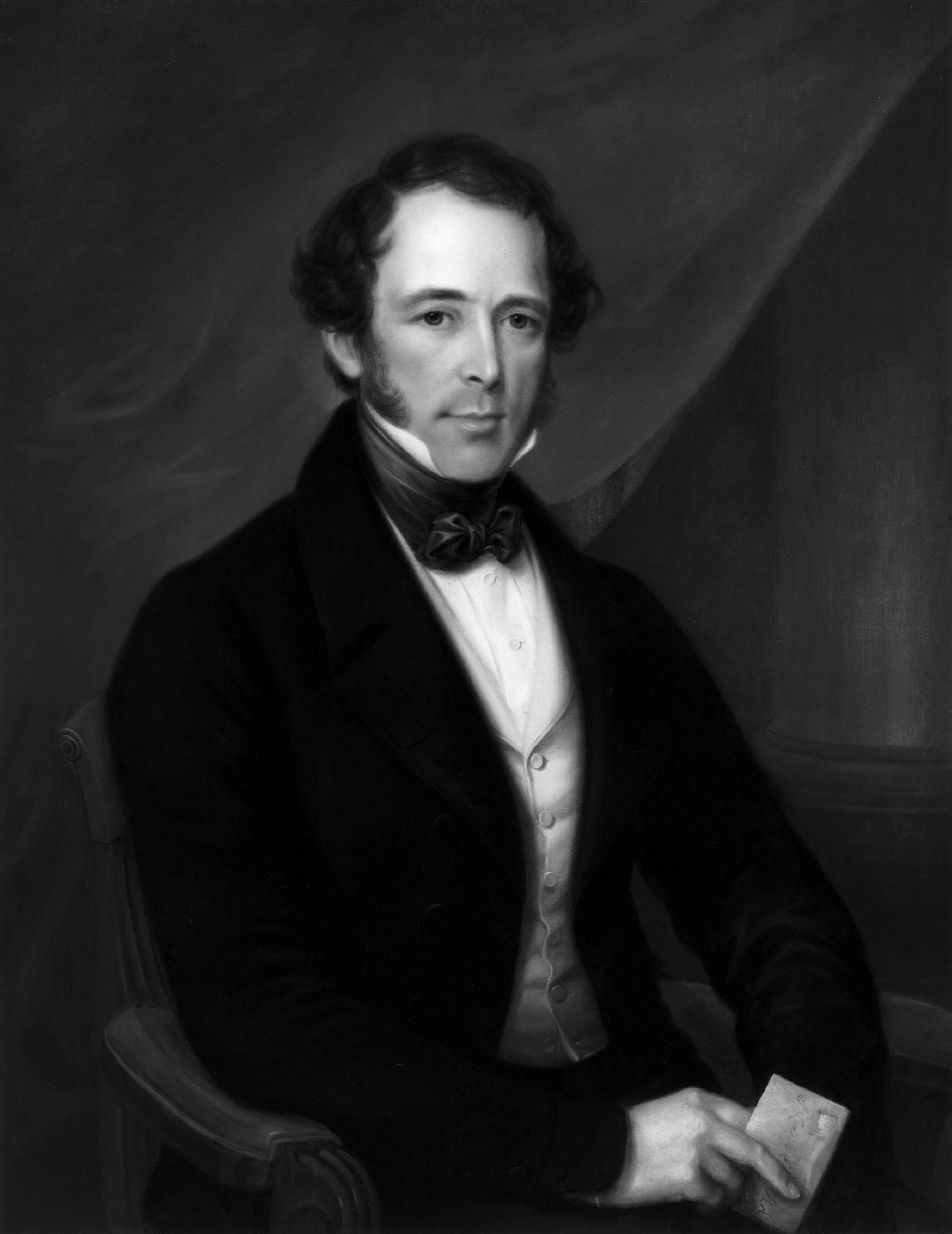 Samuel Cousins, by James Leakey (died 1865), given to the National Portrait Gallery, London in 1906. All images in this batch have been confirmed as author died before 1939 according to the official death date listed by the NPG.